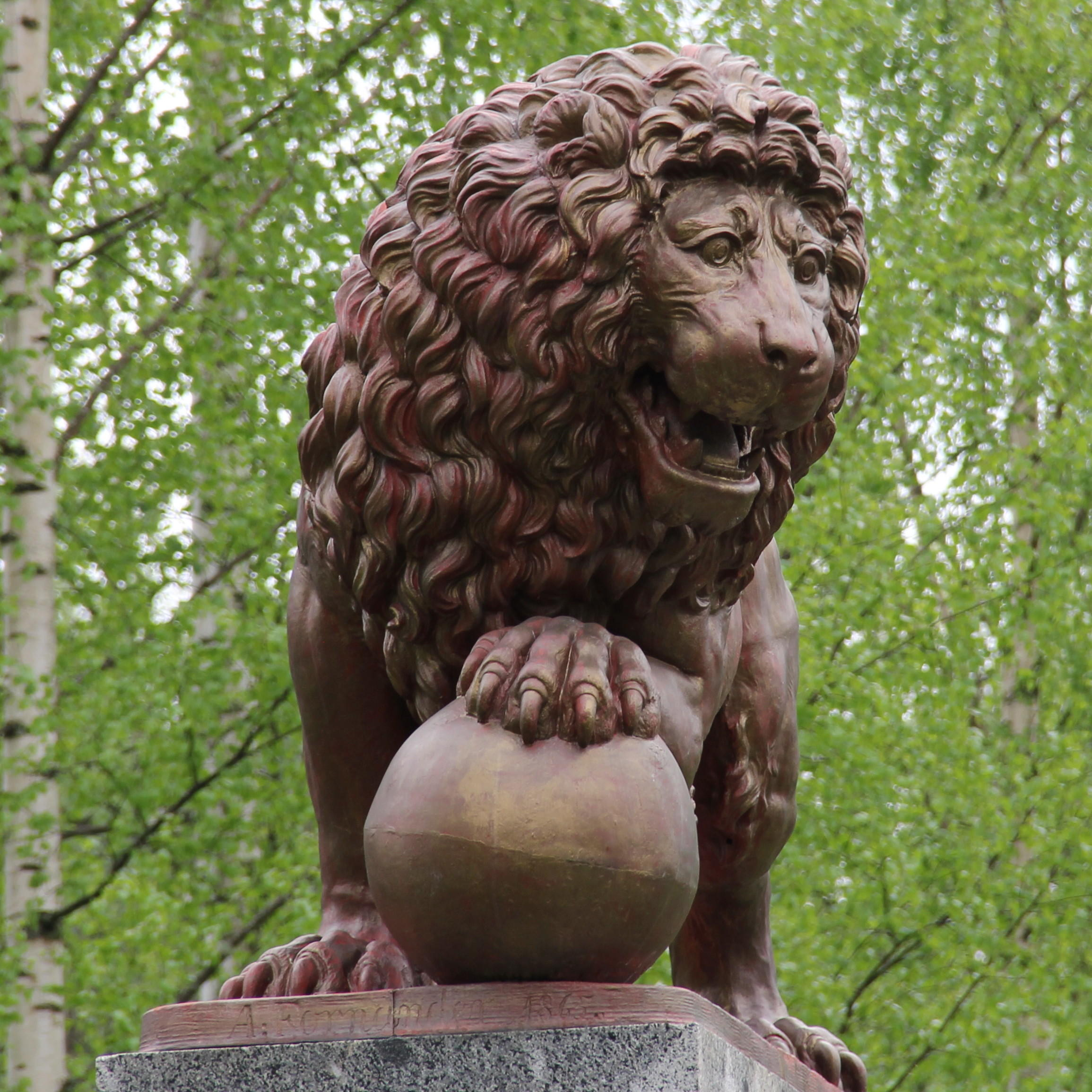 Parolan Leijona (The Parola Lion), Hattula, Finland. - A statue by Andreas Fornander, unveiled in 1868.